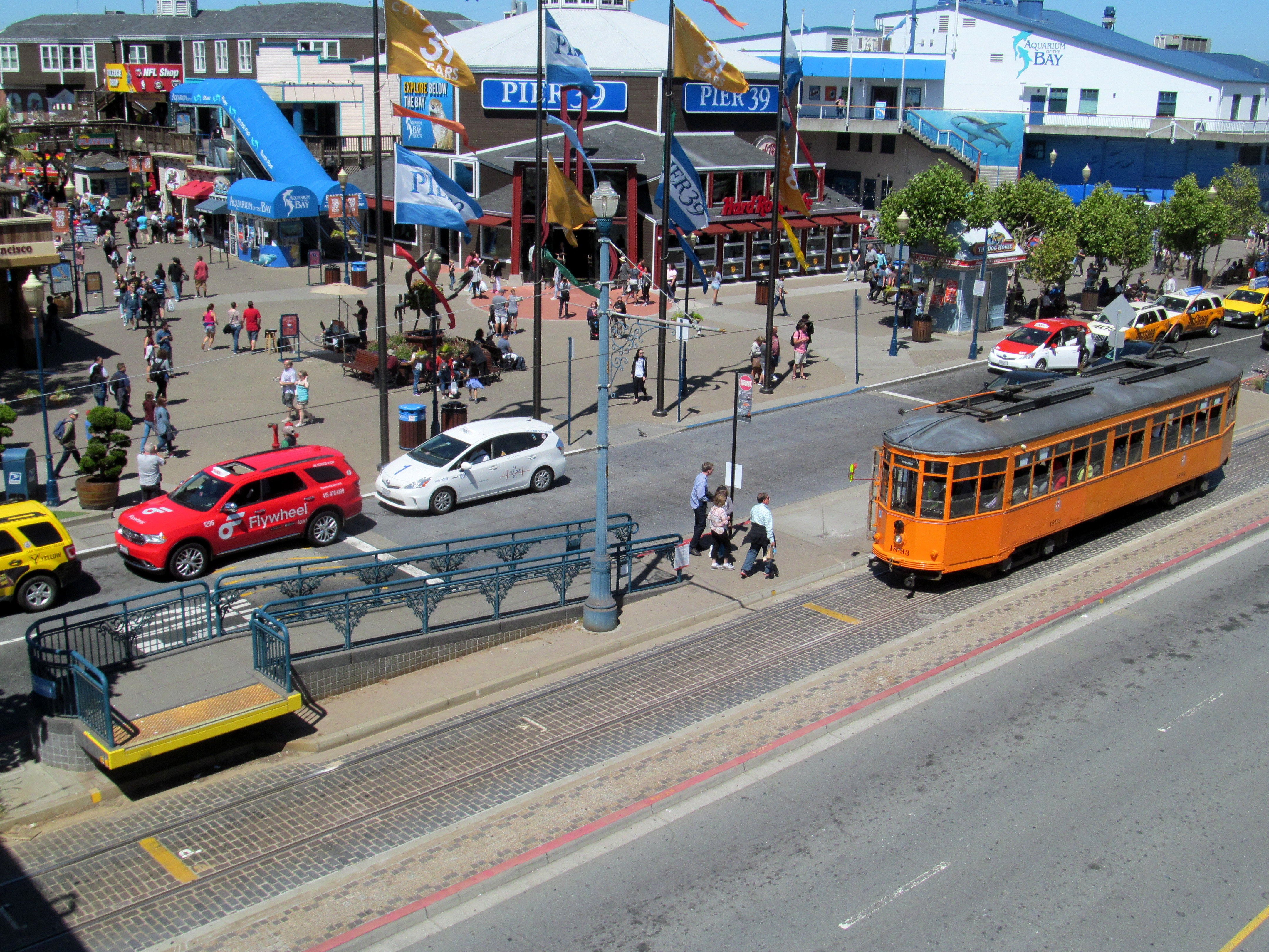 Muni streetcar #1893 at Pier 39 in June 2017